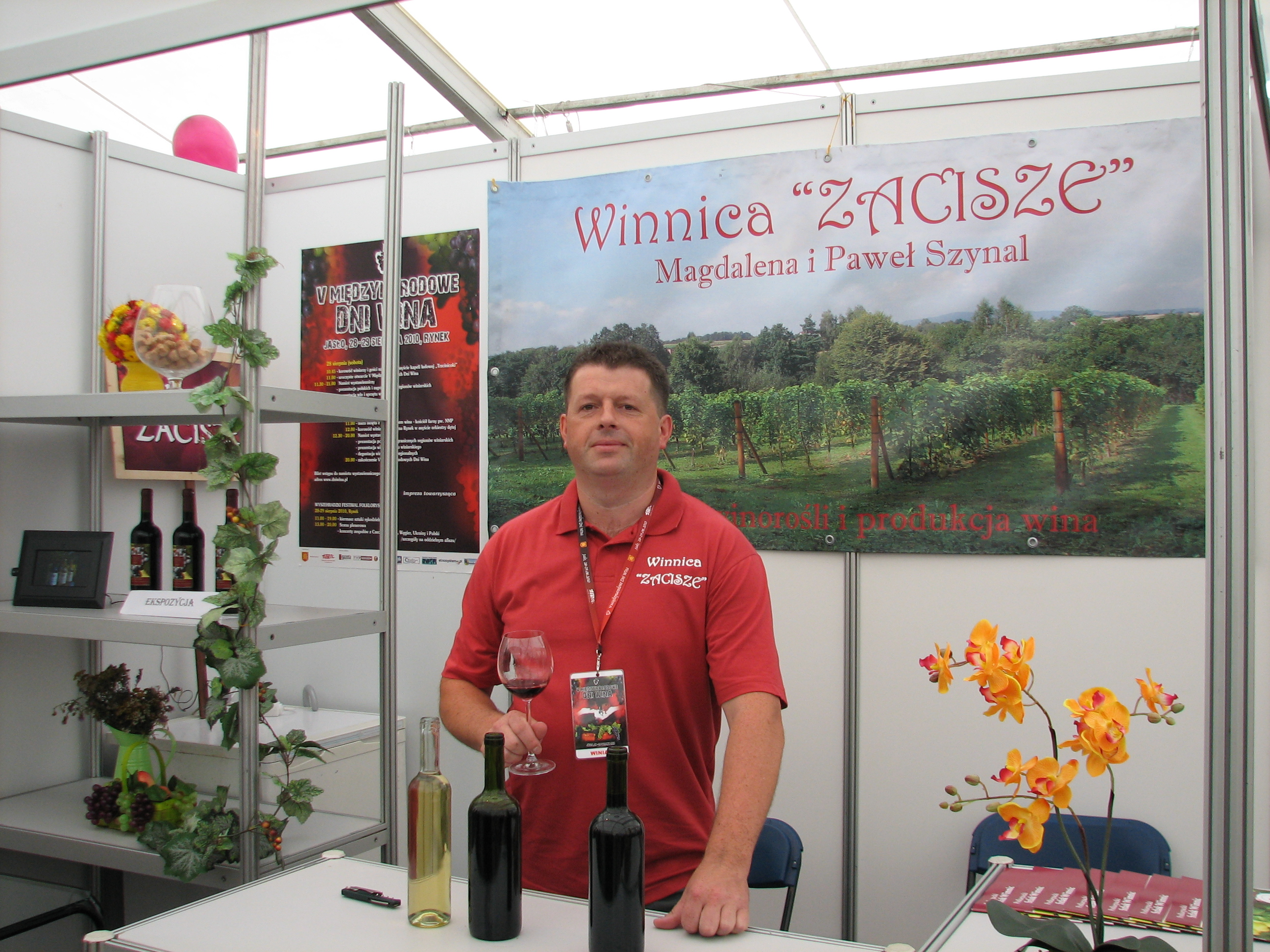 V Days of Wine in Jasło